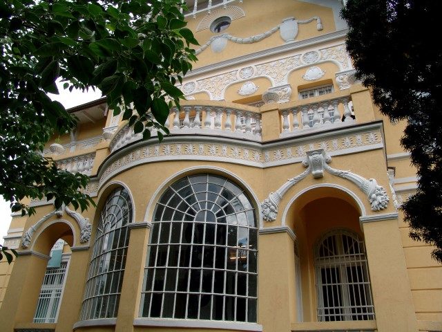 MNMA mansion, detail